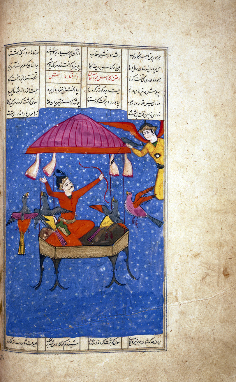 illumination from a Shahnameh manuscript